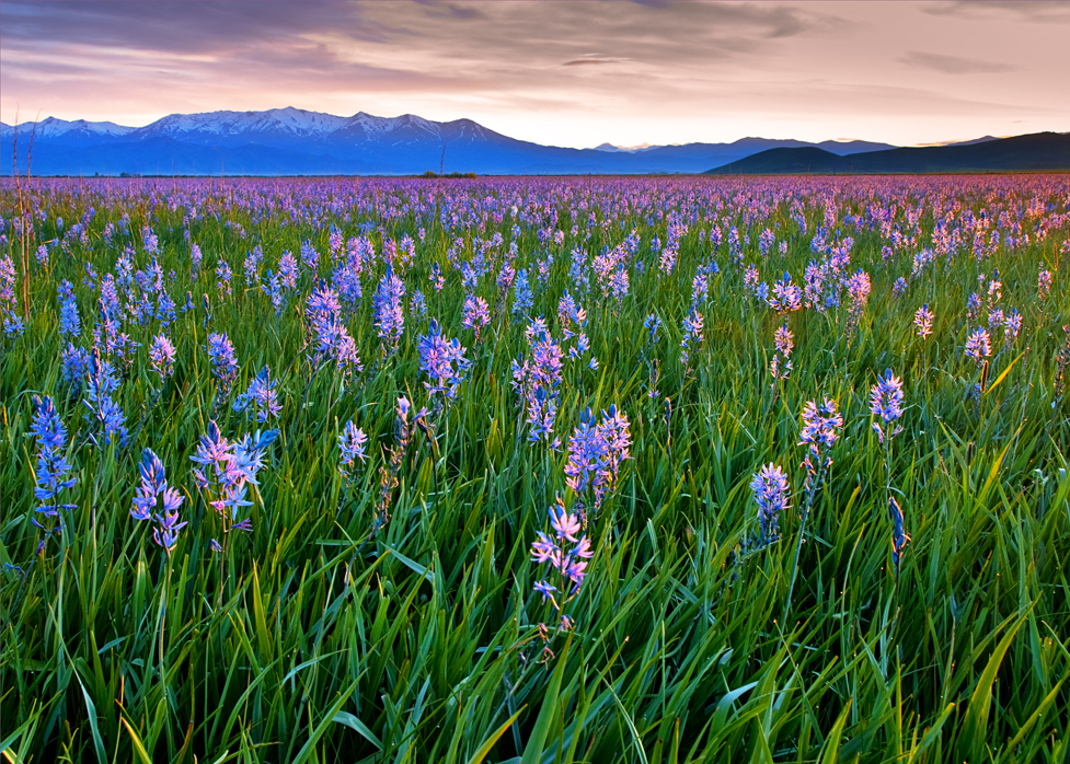 Camas lilies (Camassia quamash) and the Soldier Mountains at the Camas Prairie Centennial Marsh Wildlife Management Area near Hill City, Idaho, United States